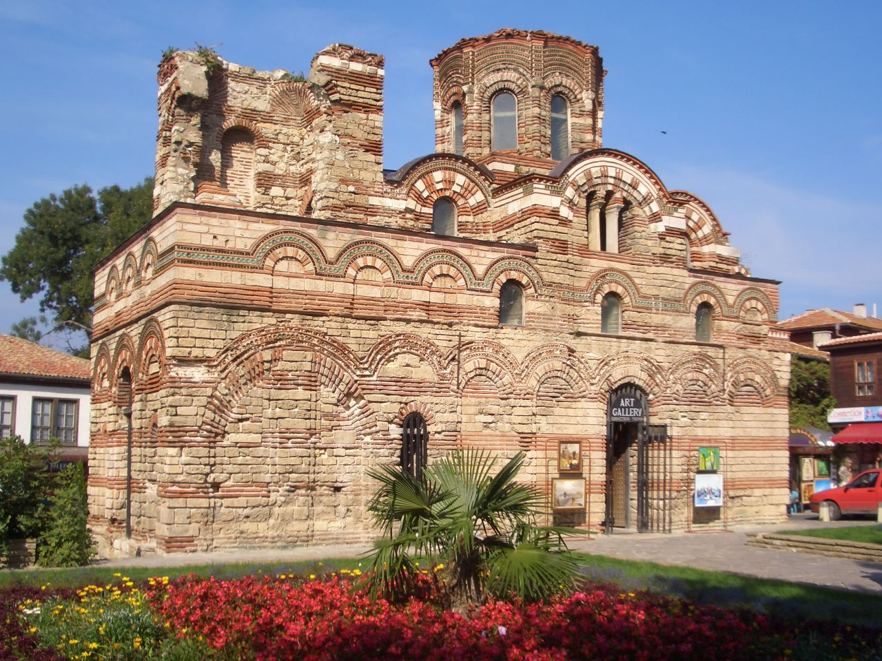 The church of Pantokrator in the old town of Nessebar, now used as an art gallery